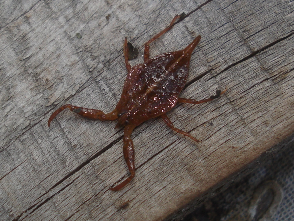 Nepa cinerea or Nepa rubra